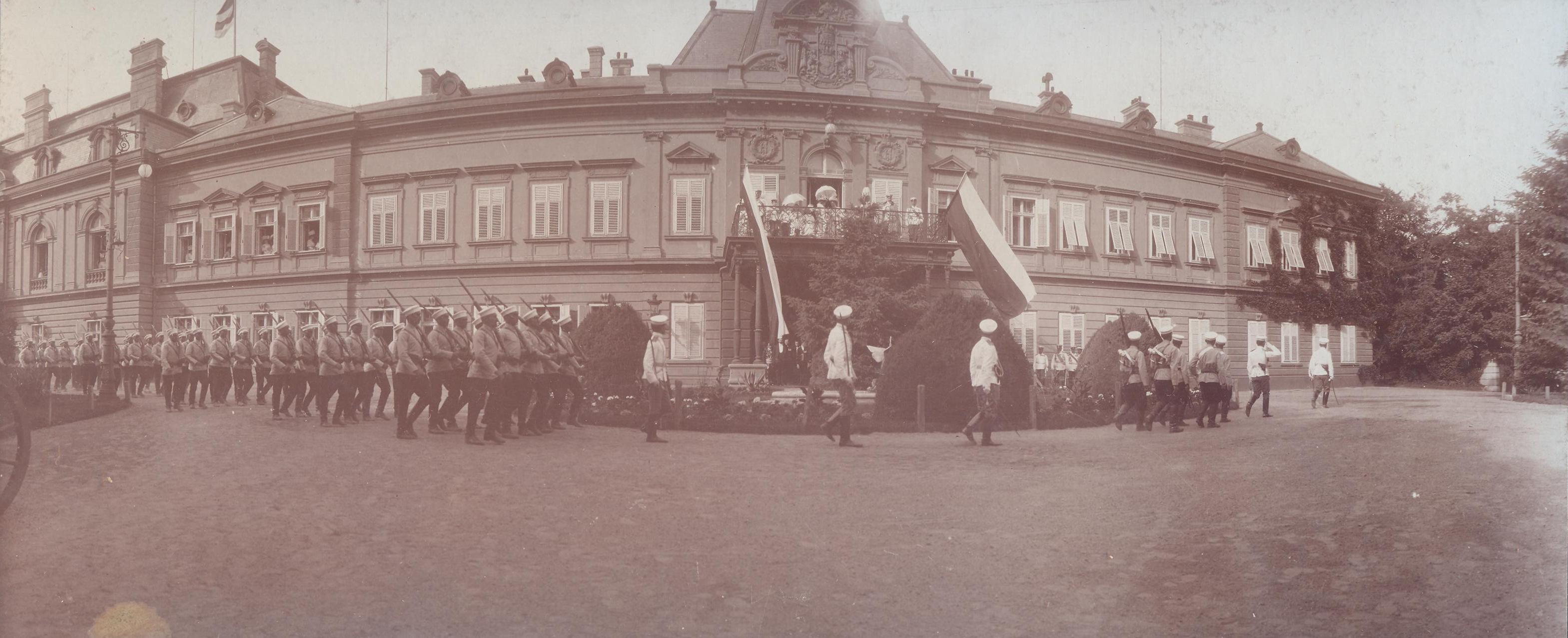 Military parades in Sofia, Bulgaria, 1923.